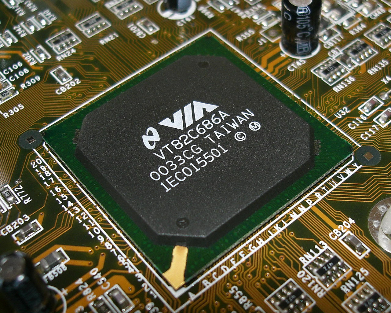 Southbridge VIA VT82C686A